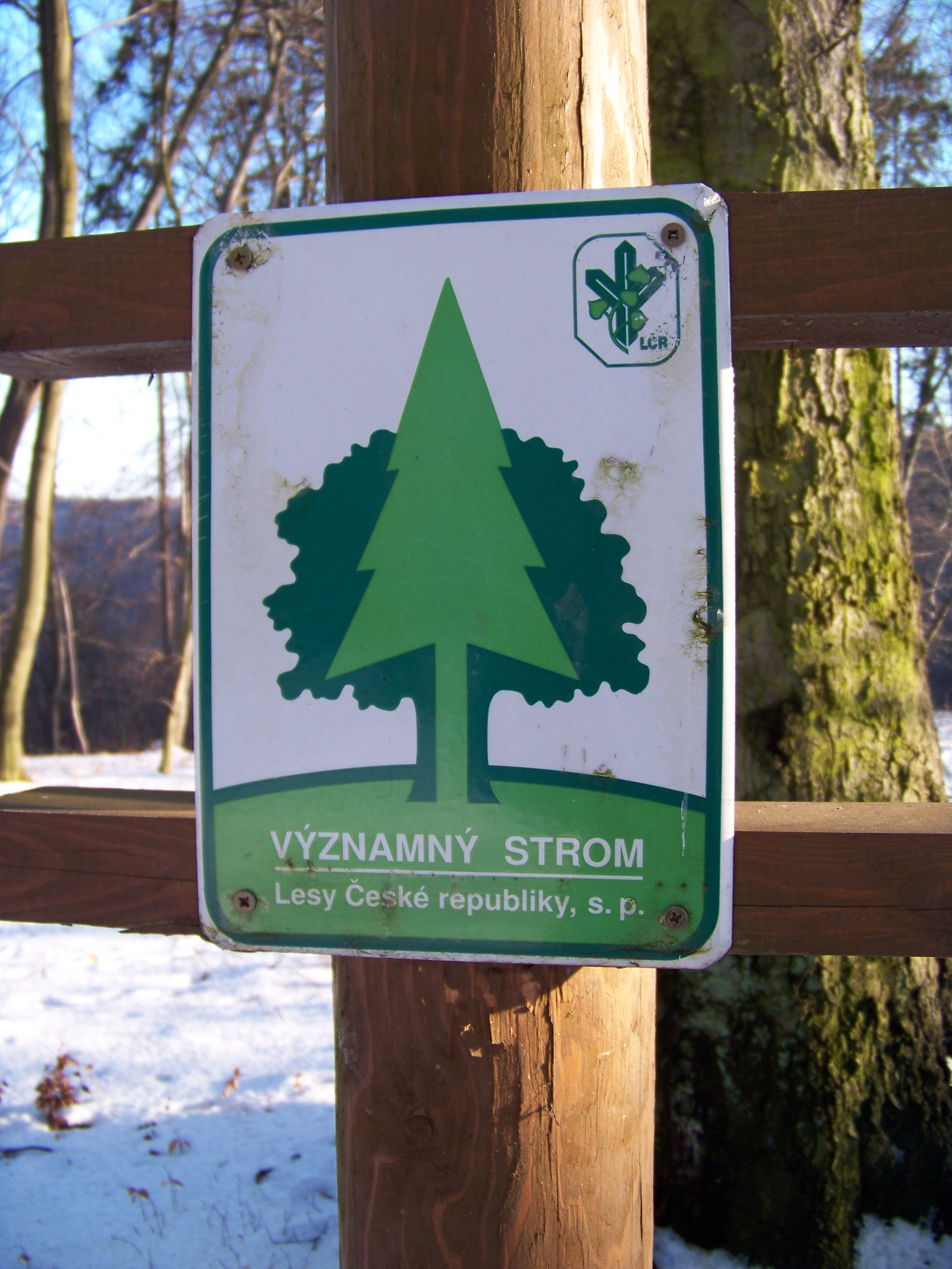 Domoušice, Louny District, the Czech Republic.